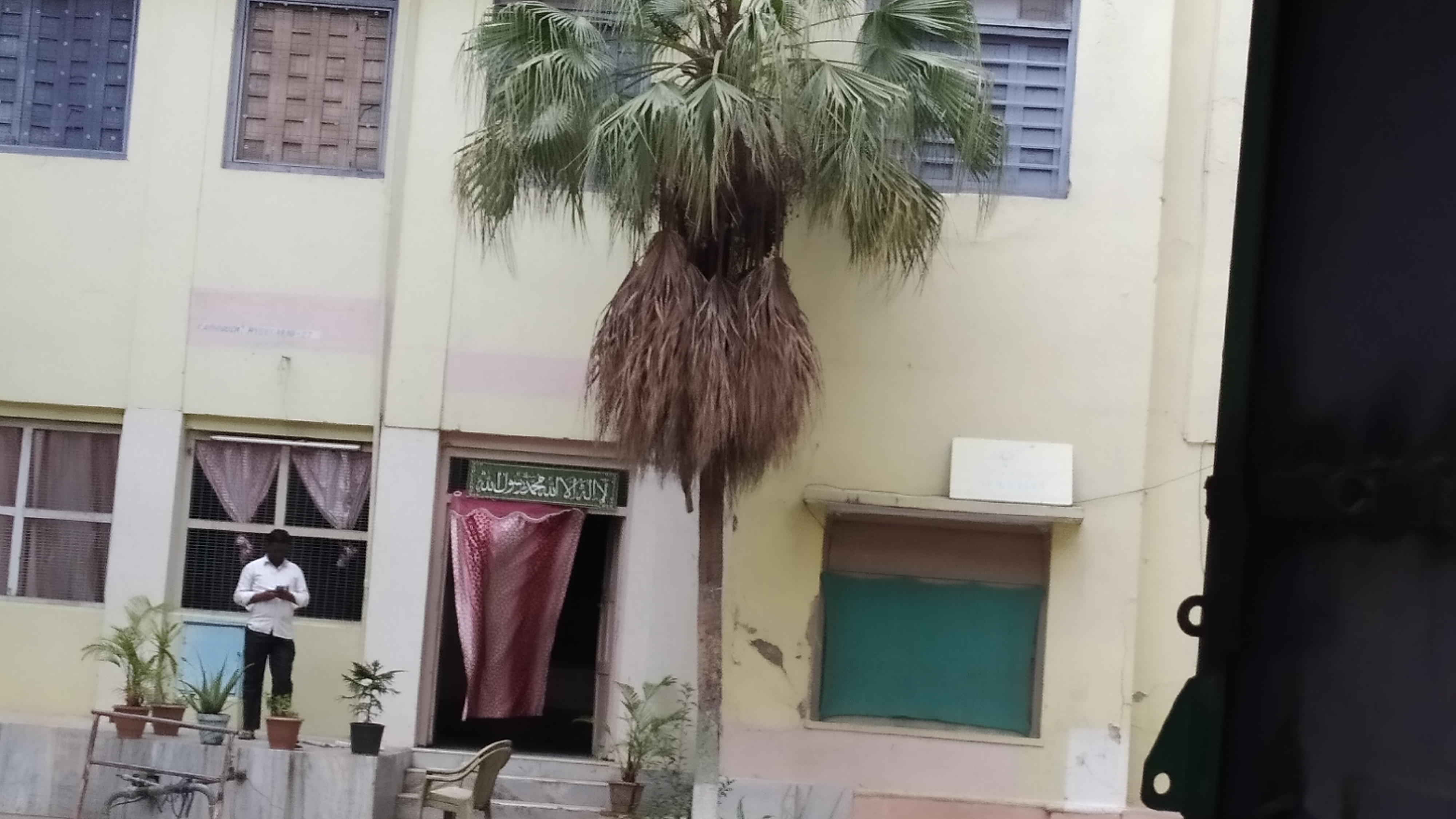 Ahmadiya Mosque Barkatpura Hyderabad